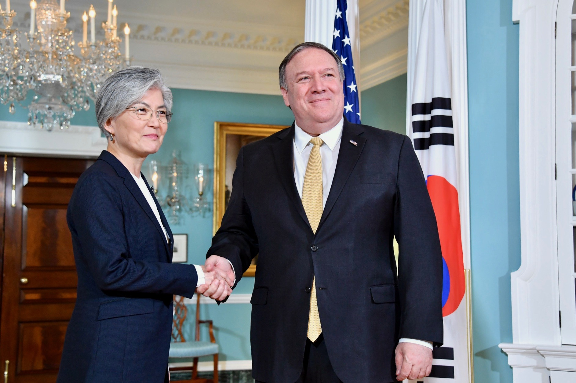 U.S. Secretary of State Michael R. Pompeo meets with Republic of Korea Foreign Minister Kang Kyung-wha at the U.S. Department of State in Washington, D.C., onMarch 29, 2019. [State Department photo by Michael Gross/ Public Domain]